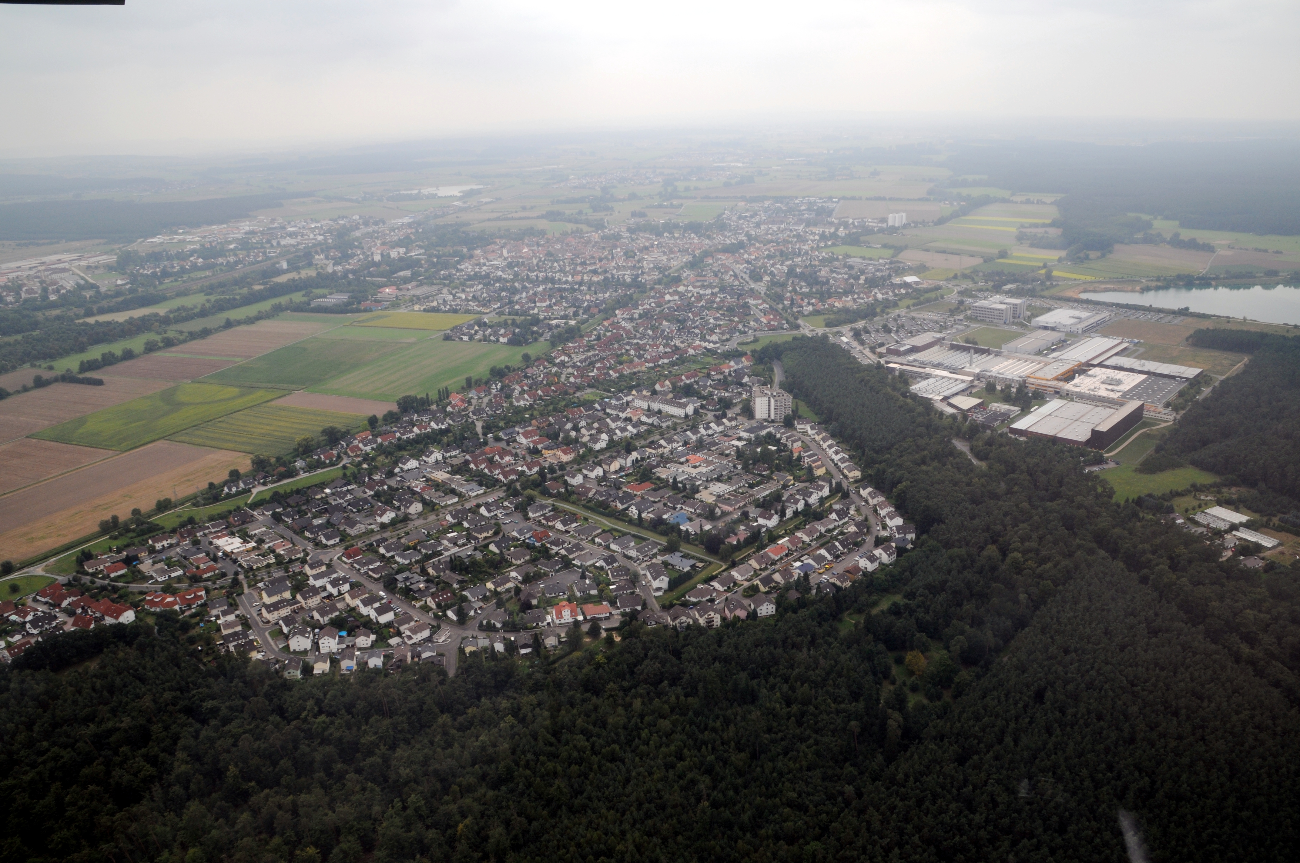 Babenhausen, Hesse, Germany, aerial photograph